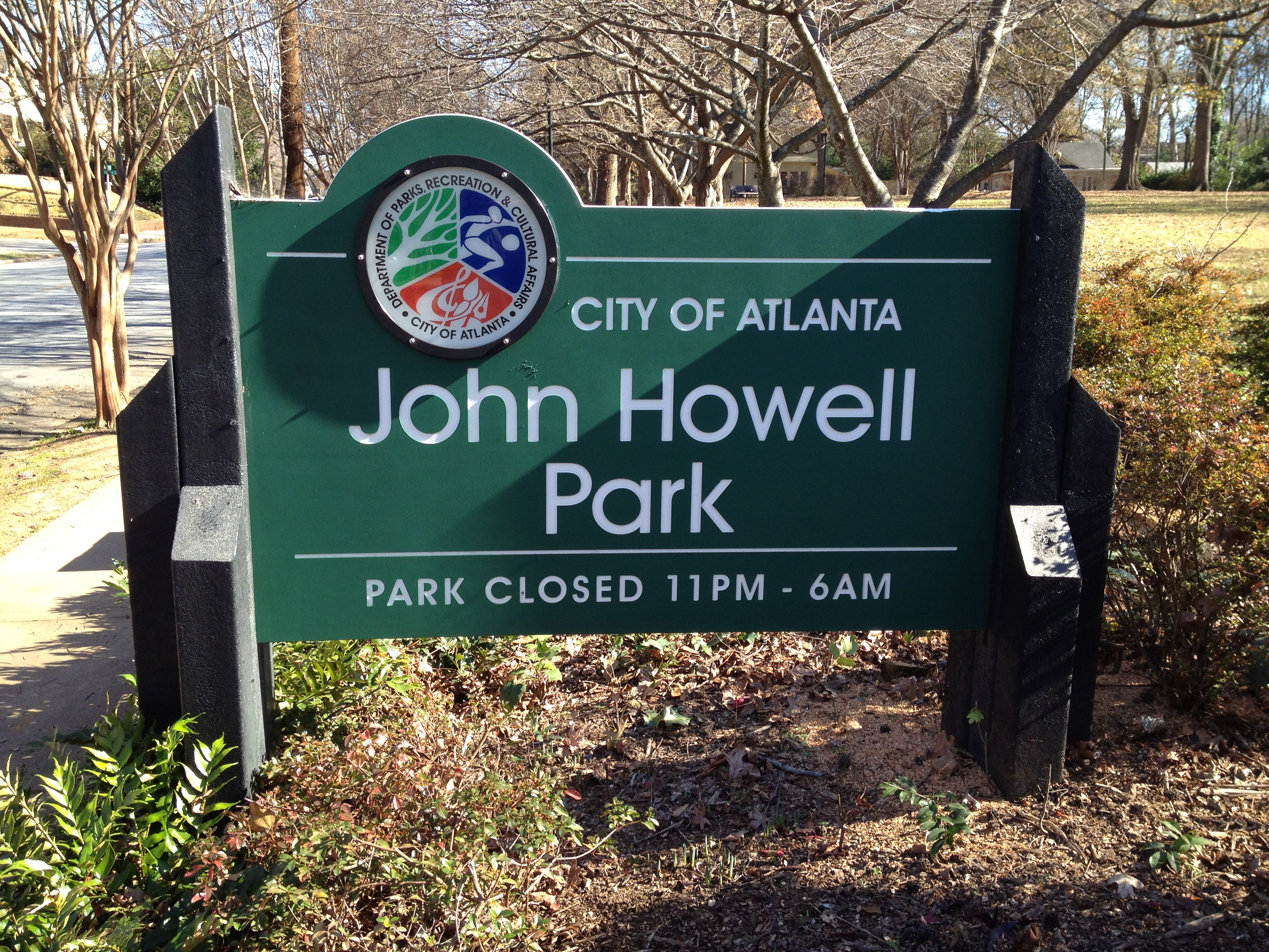 Sign at John Howell Park